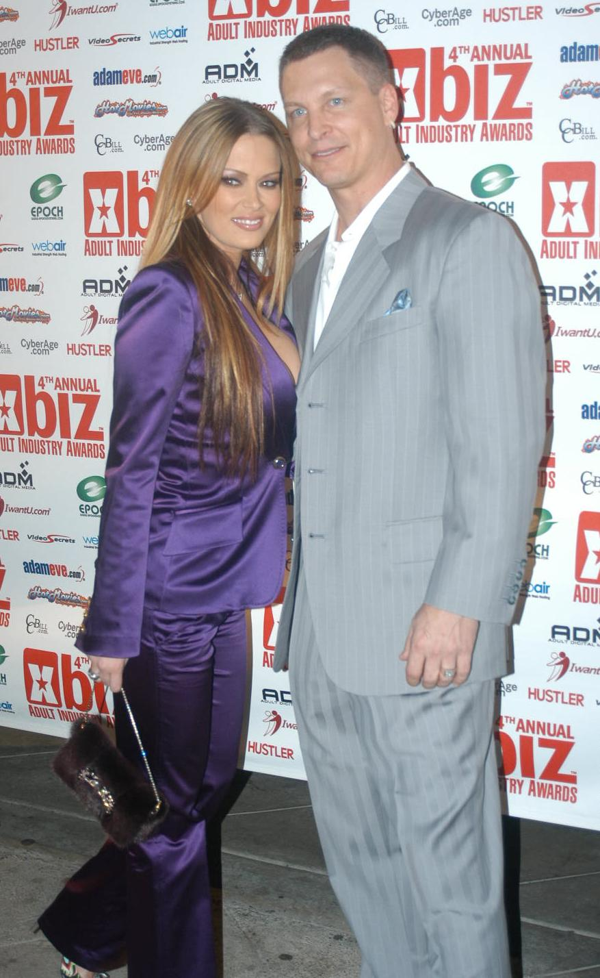 Jenna Jameson, Jay Grdina at the XBiz Awards, November 17, 2005